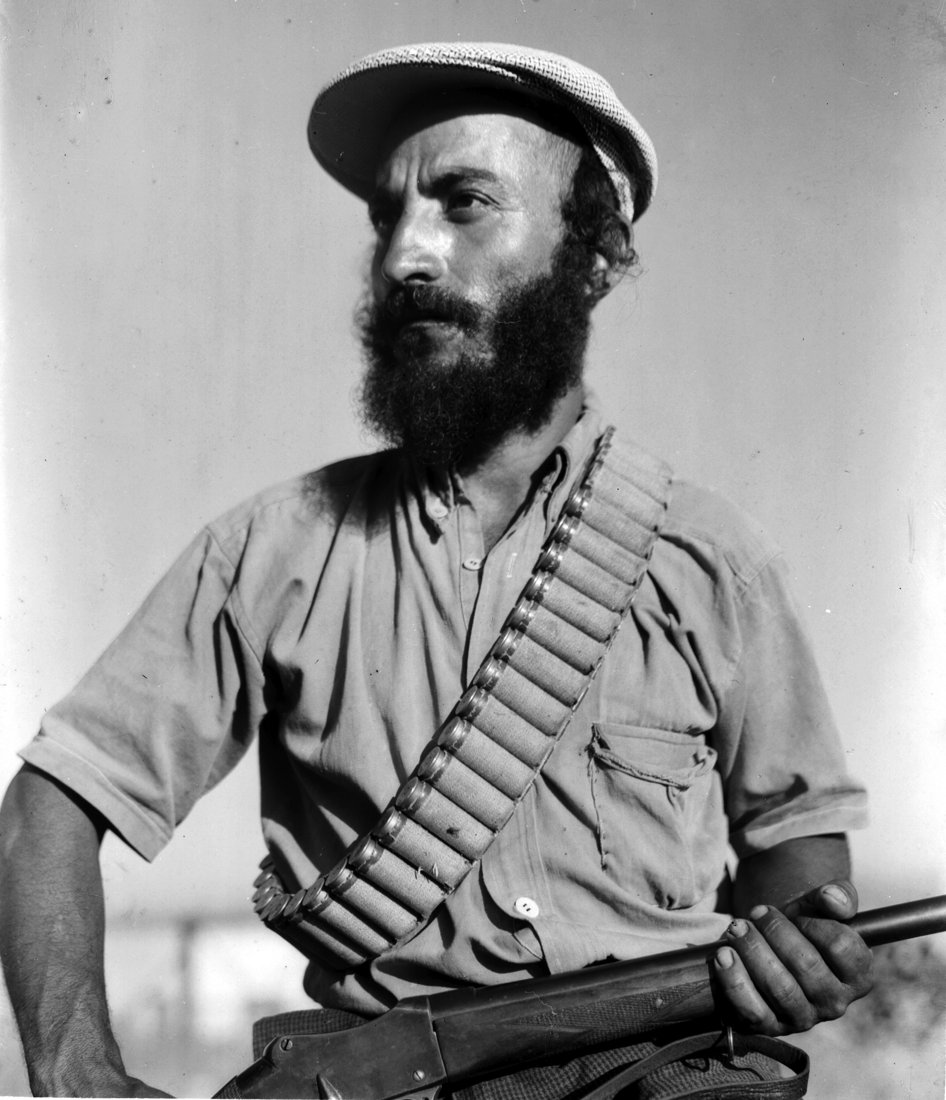 A YEMENITE "HAGANA" MEMBER ON GUARD DUTY AT MOSHAV ELYASHIV. שומר תימני של ארגון ההגנה במושב אלישיב.